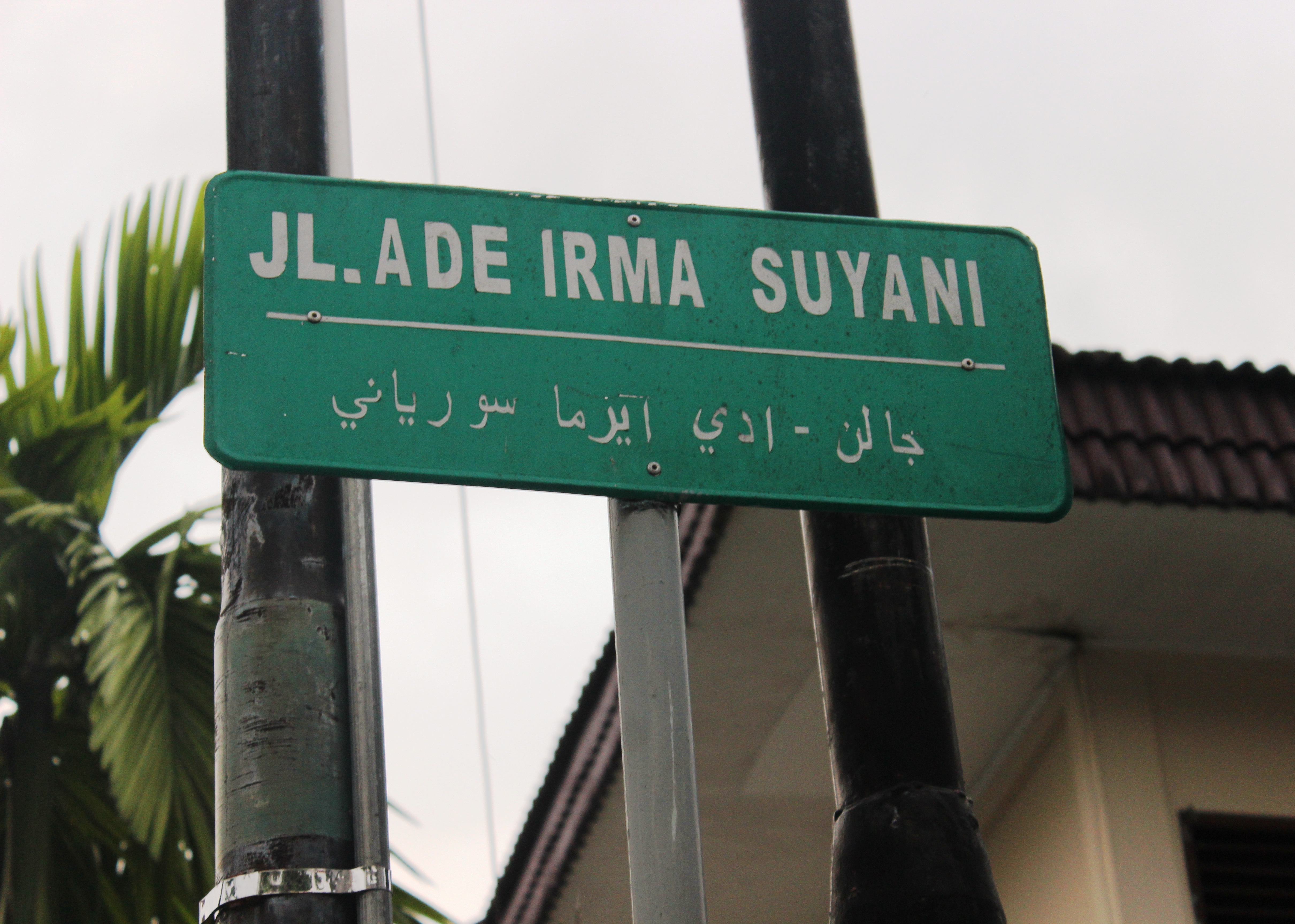 Ade Irma Suryani street sign in Pekanbaru, Indonesia, written in Latin and Jawi style.